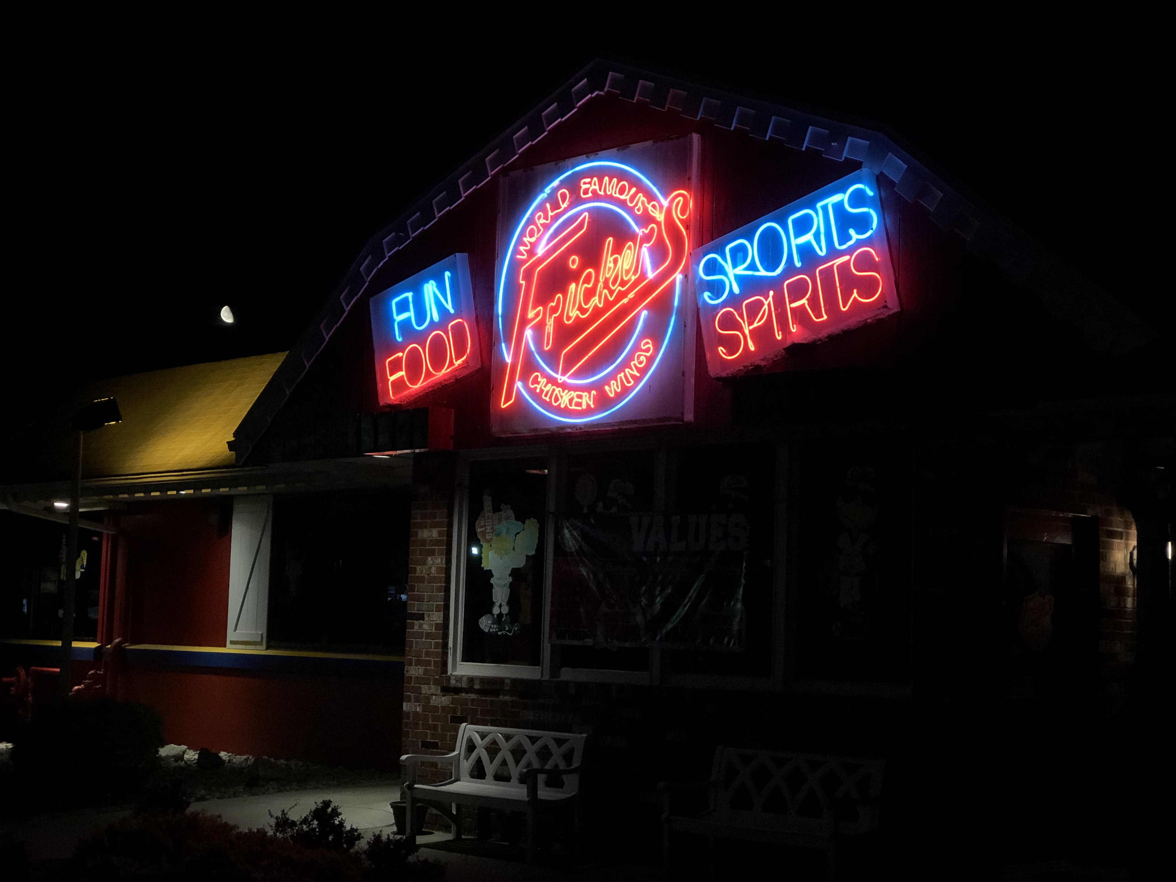 Frickers in Bowling Green, Ohio at Night with moon visible in background.